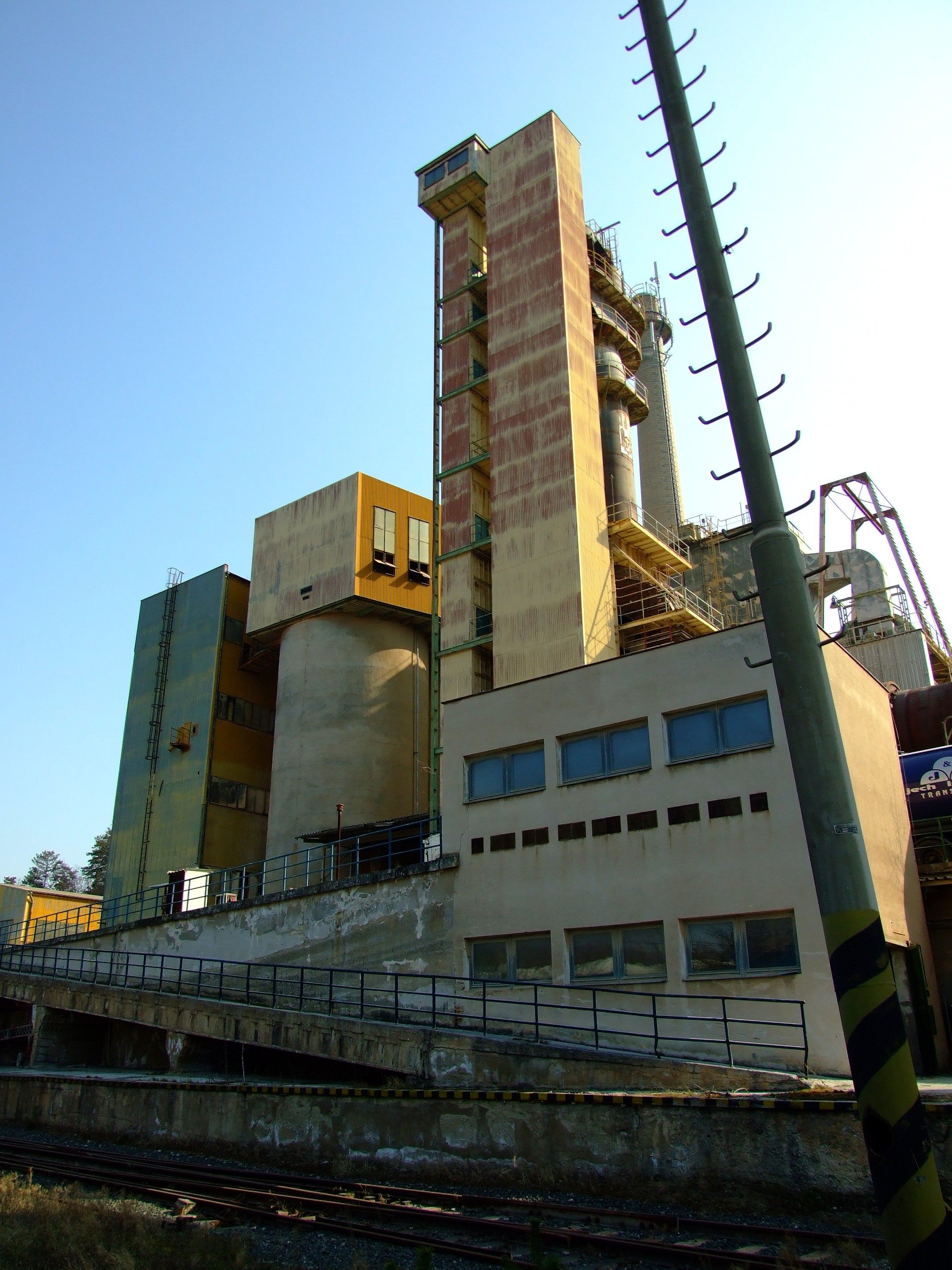 Town of Loděnice and its surrounding nature in Central Bohemian region, CZhelp